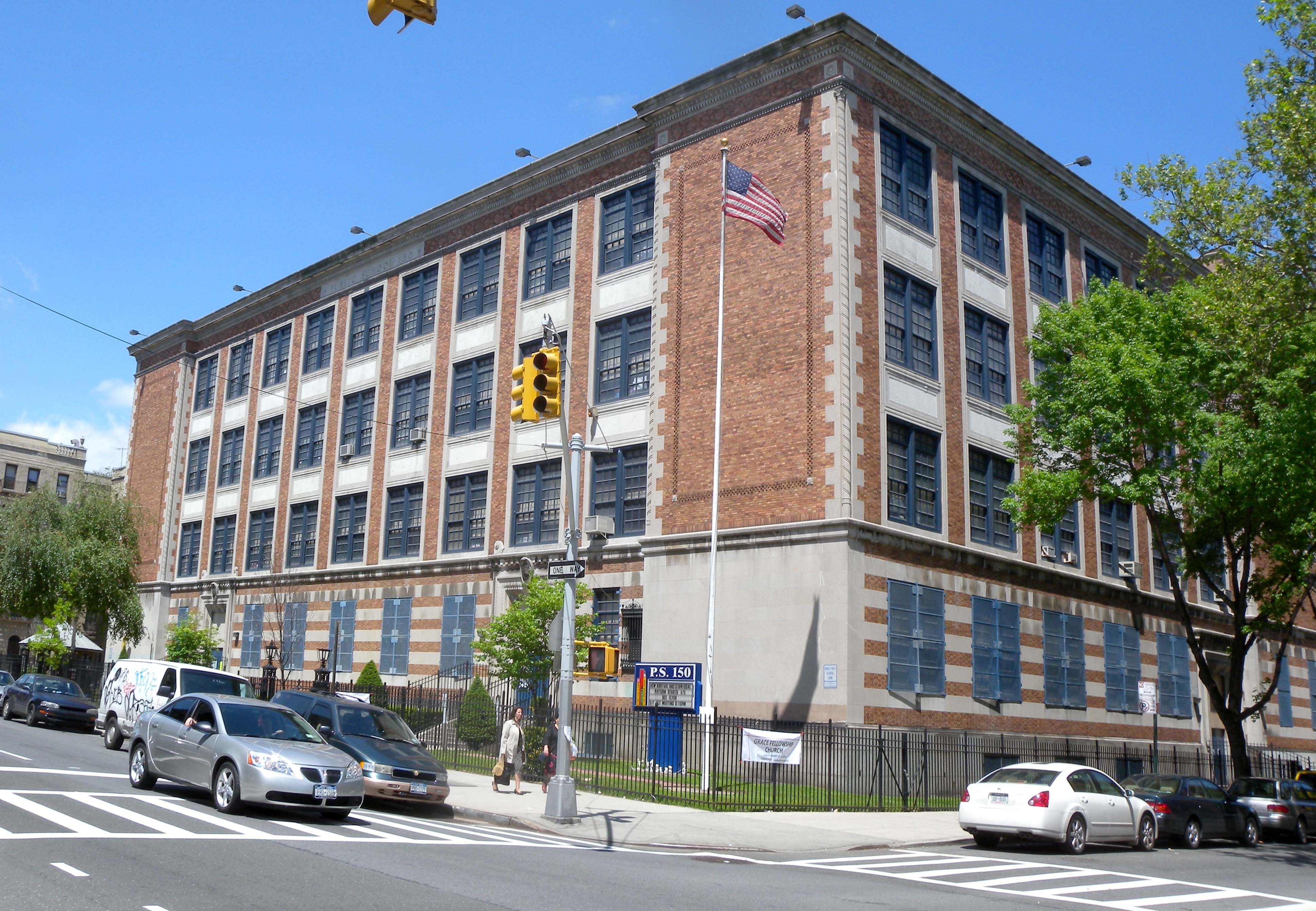 Looking northwest across 43d Avenue at PS 150 in Sunnyside on a sunny midday.